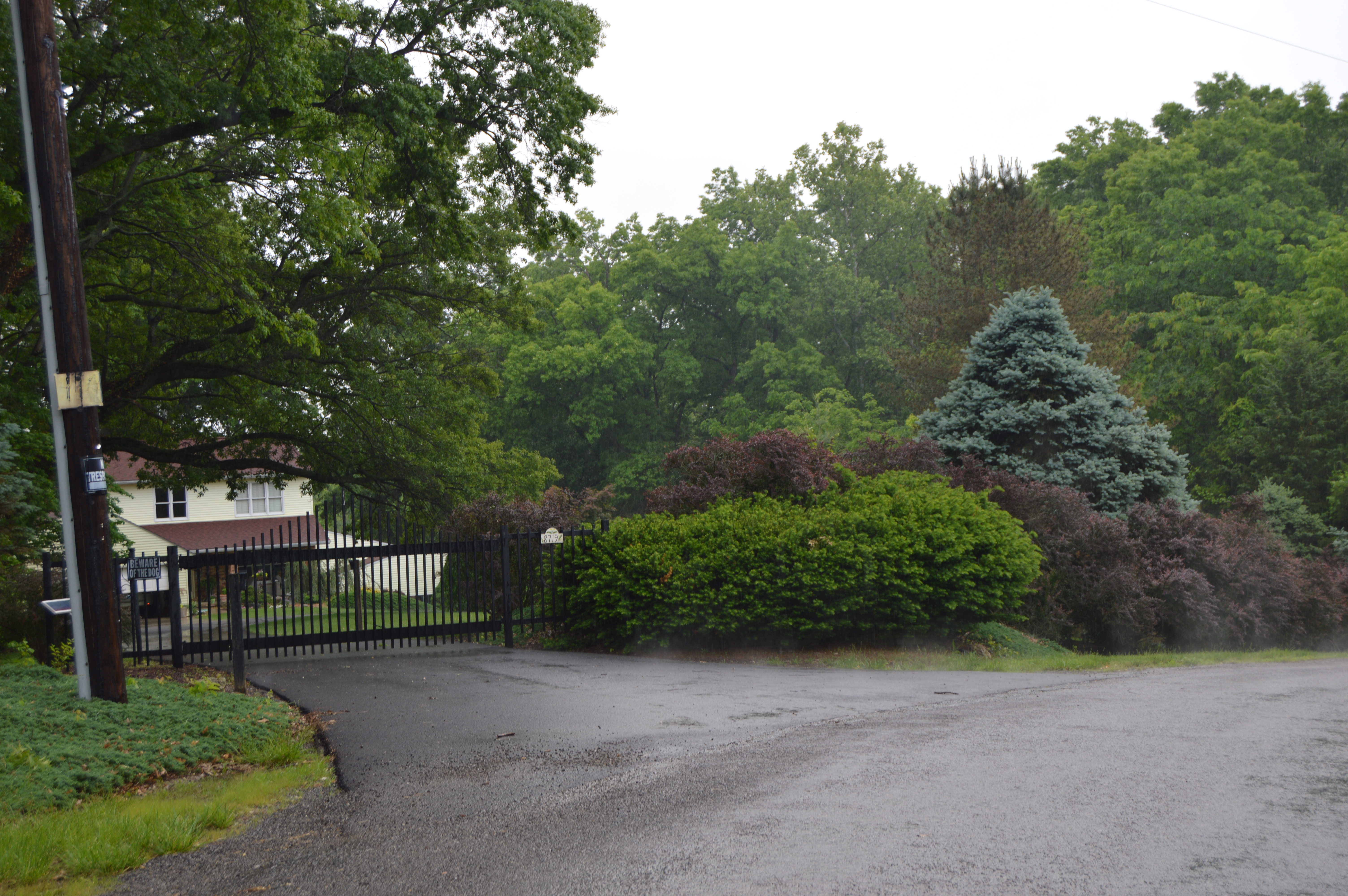 Property on the eastern side of Rosewood Hills Drive east of Edwardsville in Pin Oak Township, Madison County, Illinois, United States. The area pictured is part of the Kuhn Station Site, an archaeological site that is listed on the National Register of Historic Places.